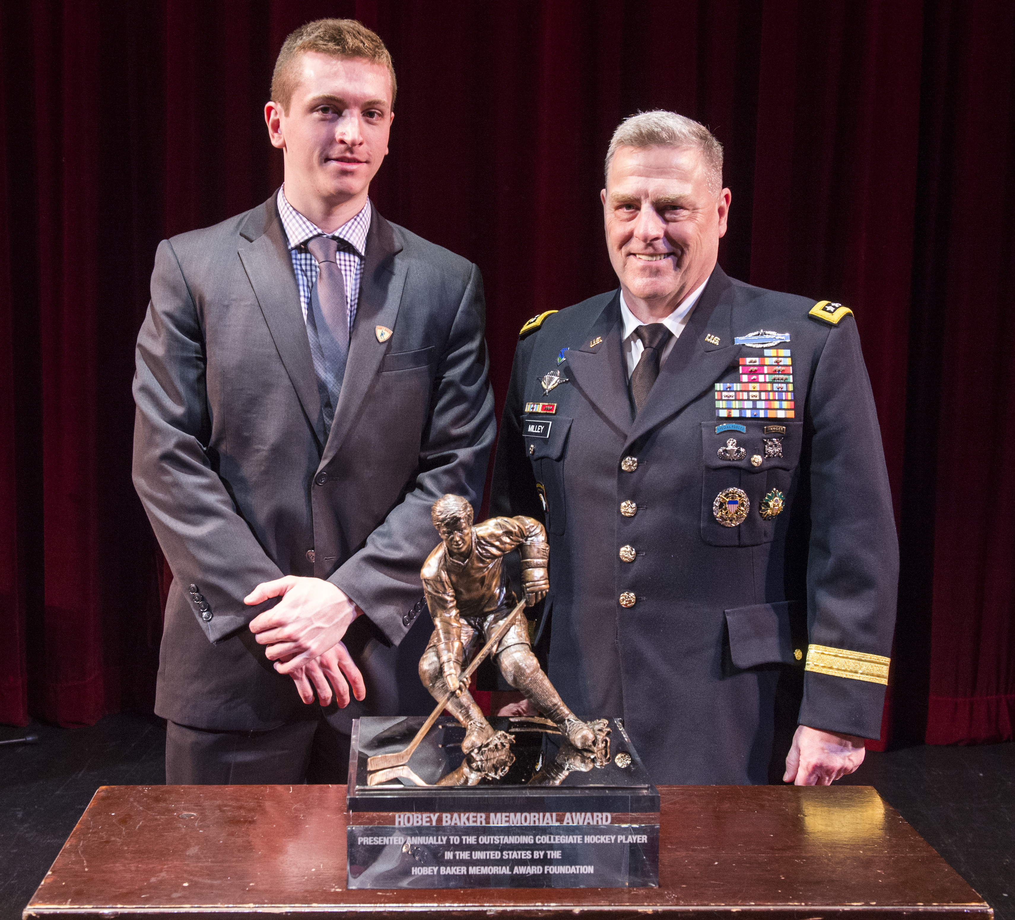 Images from the Hobey Baker Memorial Award Announcement, Tampa, Fla., April 8, 2016. U.S. Army Chief of Staff, Gen. Mark A. Milley, a former Princeton hockey player, was presented the Lou Lamoriello Award for 2016, named for the former Princeton College player, coach, and war veteran, for his unique and distinguished career. (U.S. Army photograph by Staff Sgt. Chuck Burden /released).